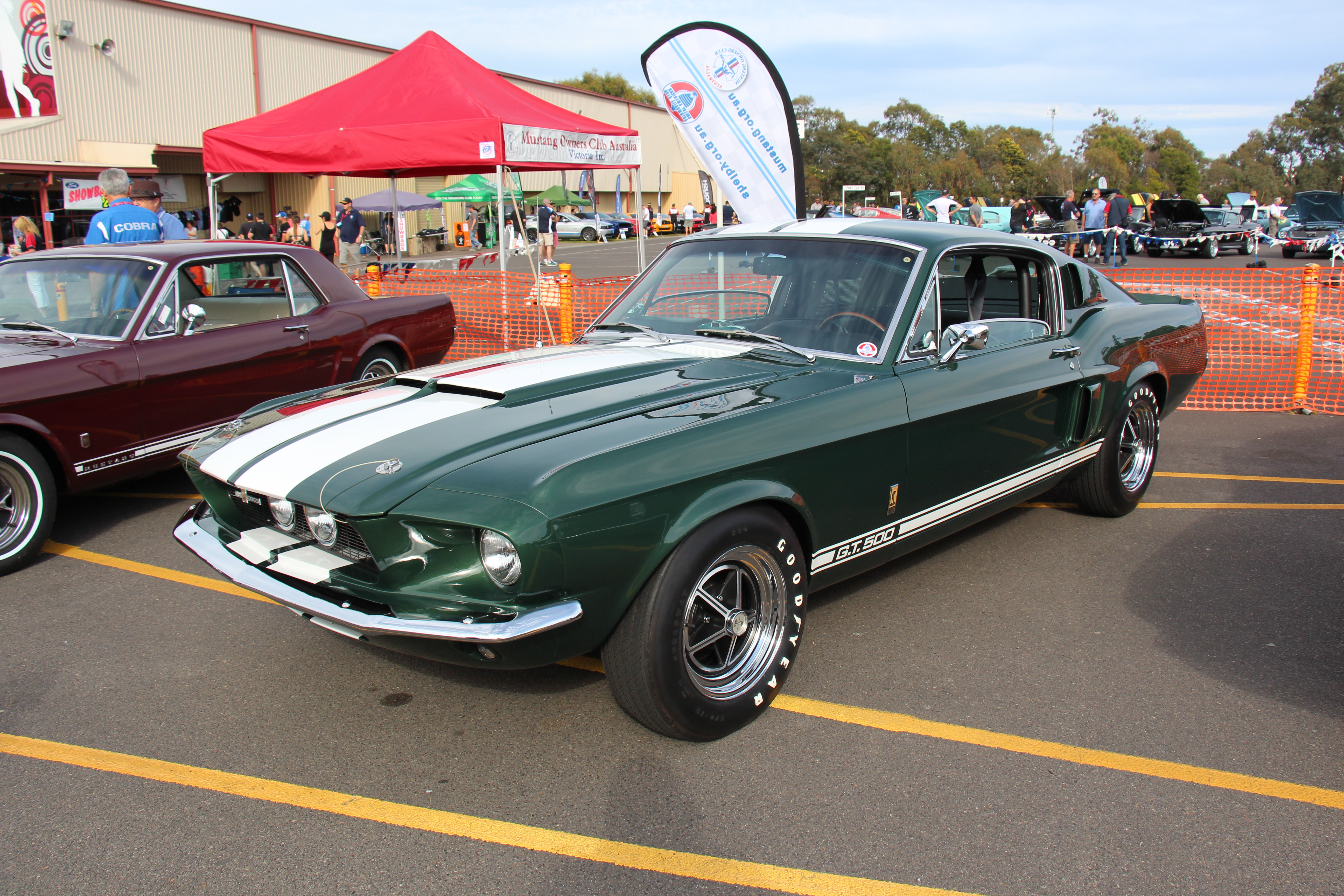 Dark Moss Green 1967 saw the Mustangs first major redesign, It got a larger engine bay, so Ford could fit their first big-block engine in the Mustang. The Shelby Mustang was a high performance version of the Ford Mustang which were built by Shelby America from 1965-1970. To enhance the look of the cars, the Shelby had replacement fiberglass body parts; hood with functional scoops, four add on side air intakes, fiberglass tail, with moulded spoiler and sequential turn-signal lamps borrowed from the Mercury Cougar. Driving lights were mounted in the center of the grille (some were moved to the sides to meet state laws). Inside was the deluxe interior and a roll bar. In 1967, the GT350 was still available with the 306 bhp K Code 289 V8 with high riser manifold, but also available was the GT500 with 428 Police Interceptor engine with twin 600-cfm Holley 4 bbl carbys 2948 GT500s made (1175 GT350s). Engine; 355 bhp 428 cu in V8